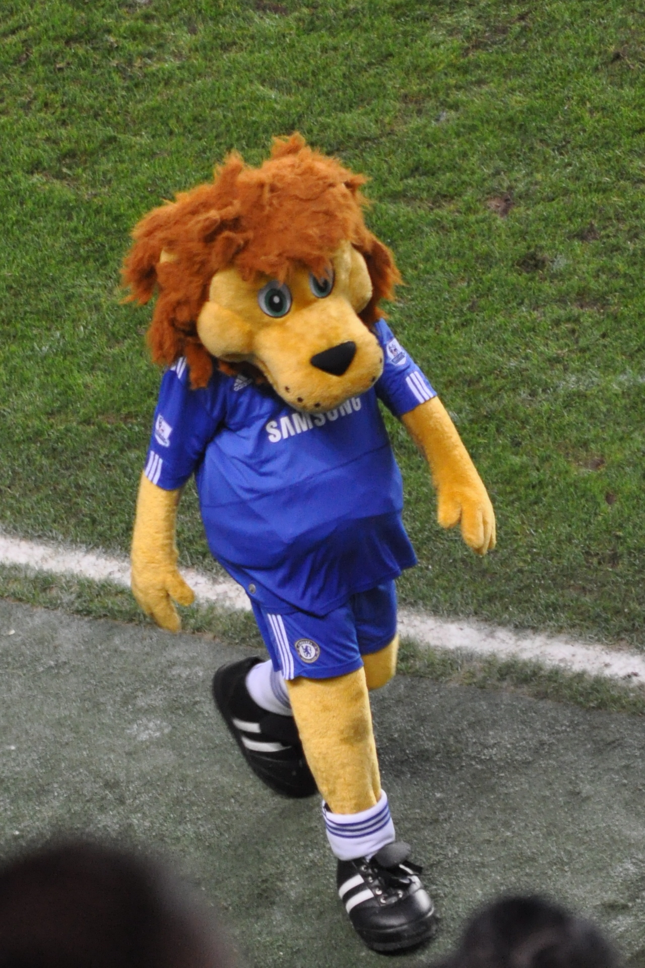 Stamford The Lion